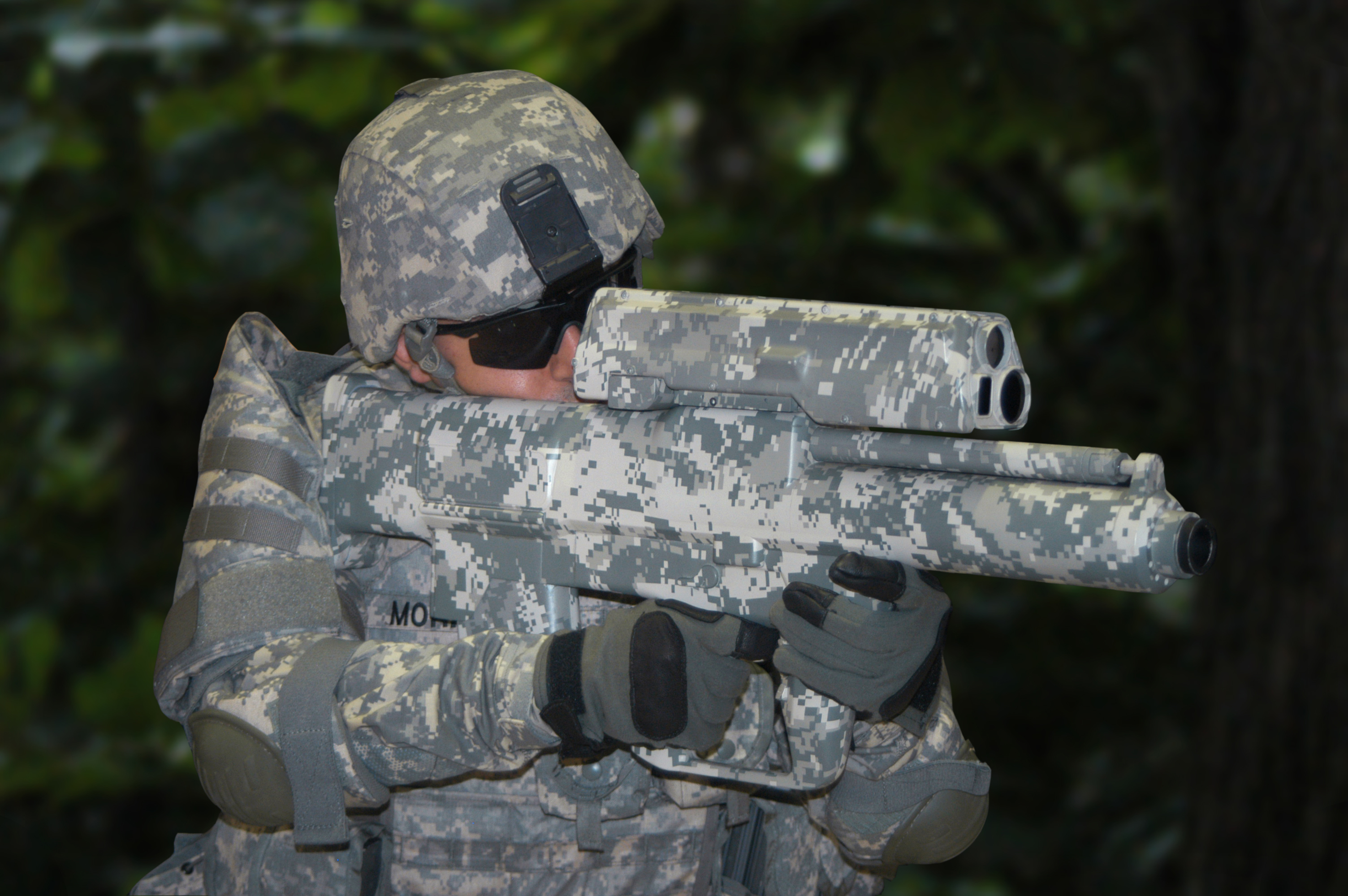 The XM-25 Counter Defilade Target Engagement System is the Army's first "smart" shoulder-fired weapon. It launches 25mm dual-warhead, low velocity, flat trajectory ammunition designed to explode over a target. PEO Soldier unveils lighter, more lethal weapons systems See more at Army.mil